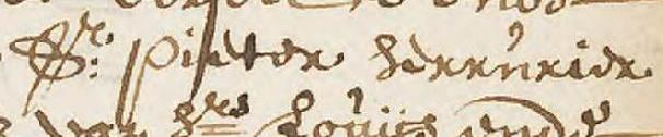 Pieter Serrurier, Petrus Serrarius: Amsterdam Notariële archieven, archiefnummer 5075, inventarisnummer 3164 - November 15, 1662. Amsterdam Municipal Notarial Archives, archive 5075, inventory number 3164.